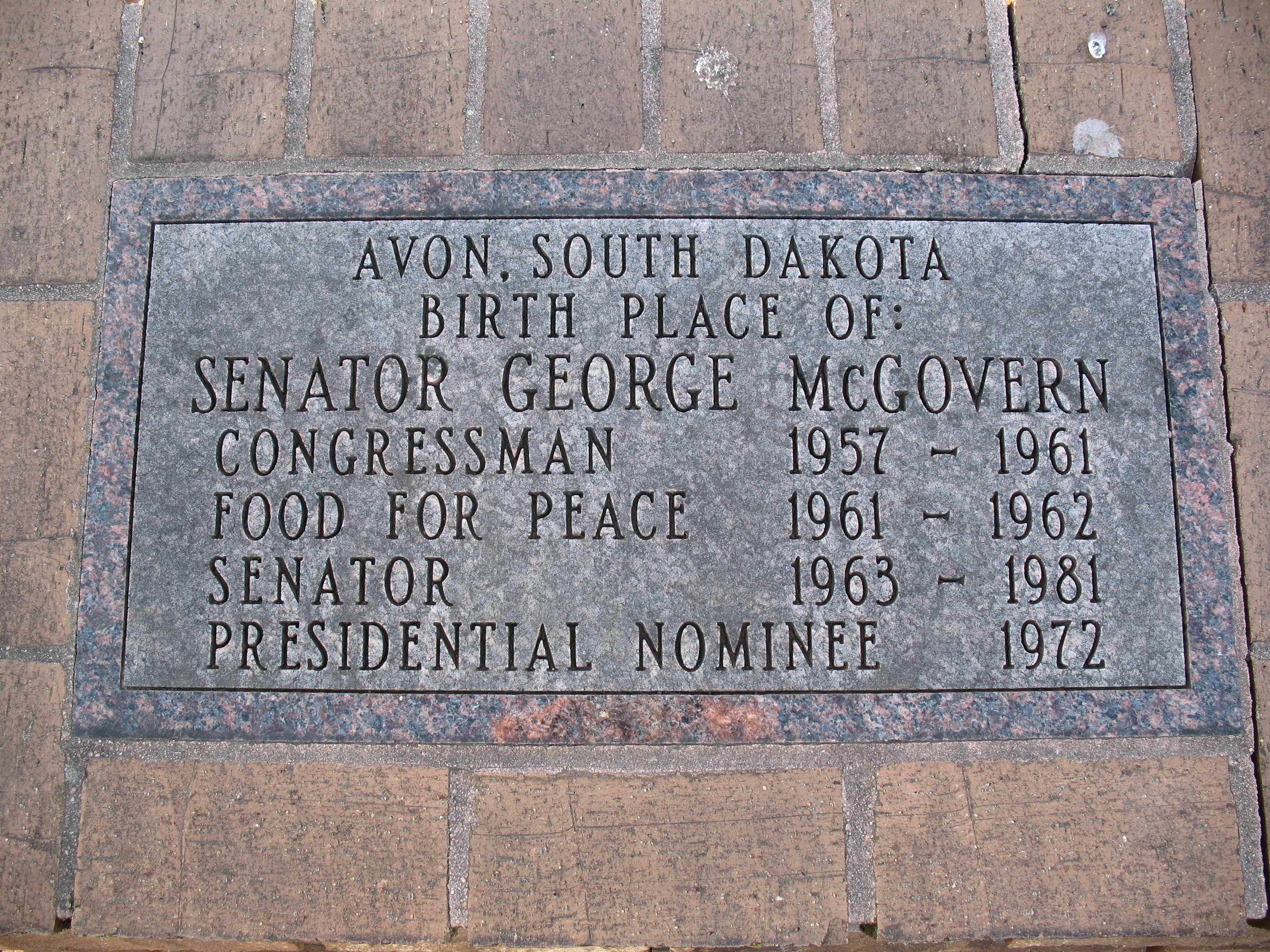 A small marker commemorating George McGovern being born in Avon, South Dakota.